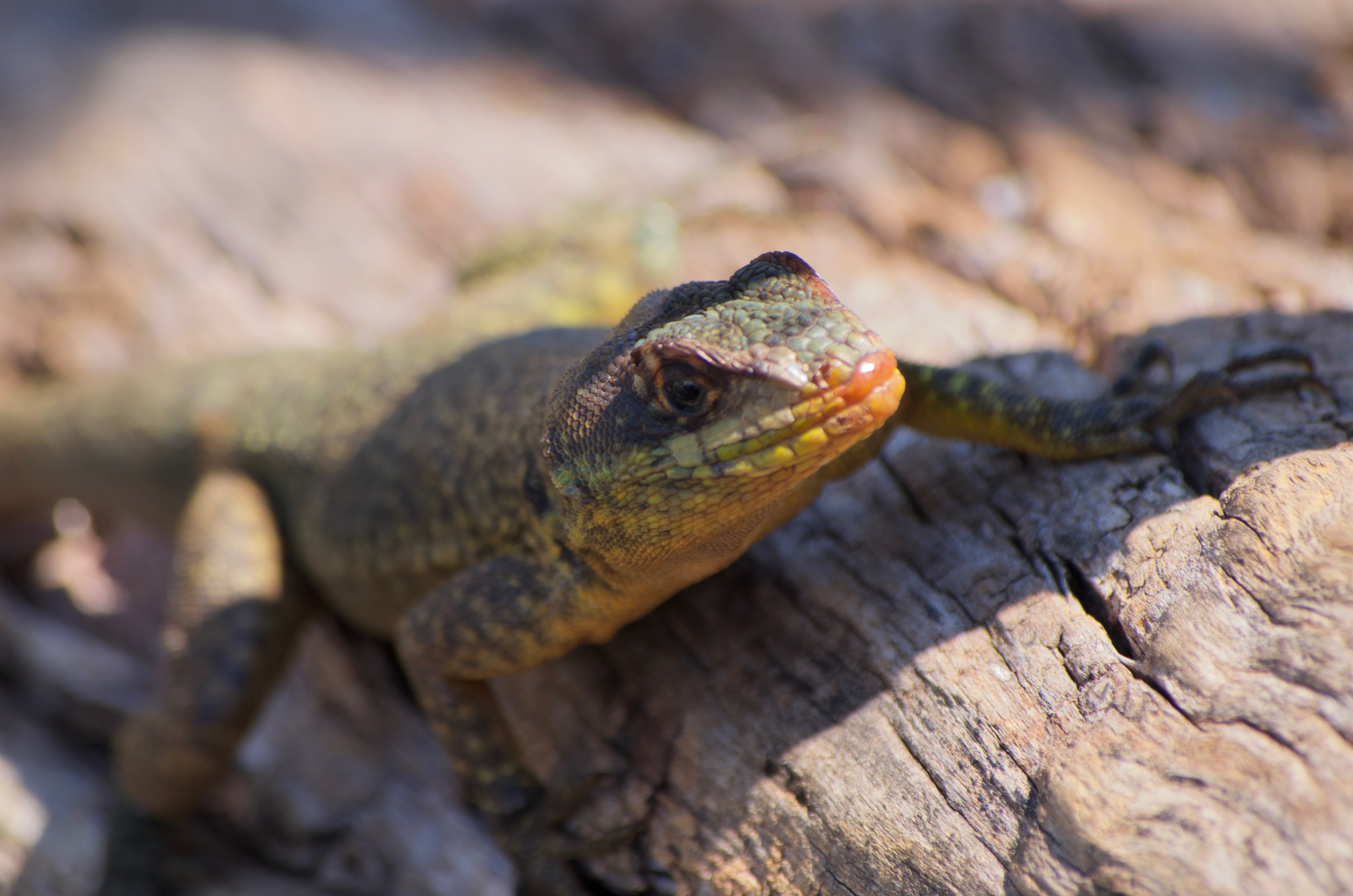 Amazon Lava Lizard in Iguazú National Park, Argentina